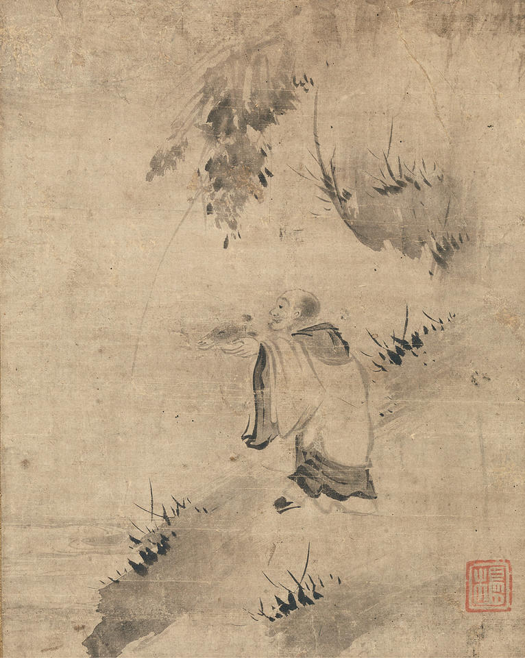 Painted by the Japanese artist Yōgetsu in the early 16th century, this painting of Zhutou, the Pig-head Eater is the right painting in a pair with a painting of Xianzi, the Shrimp Eater.